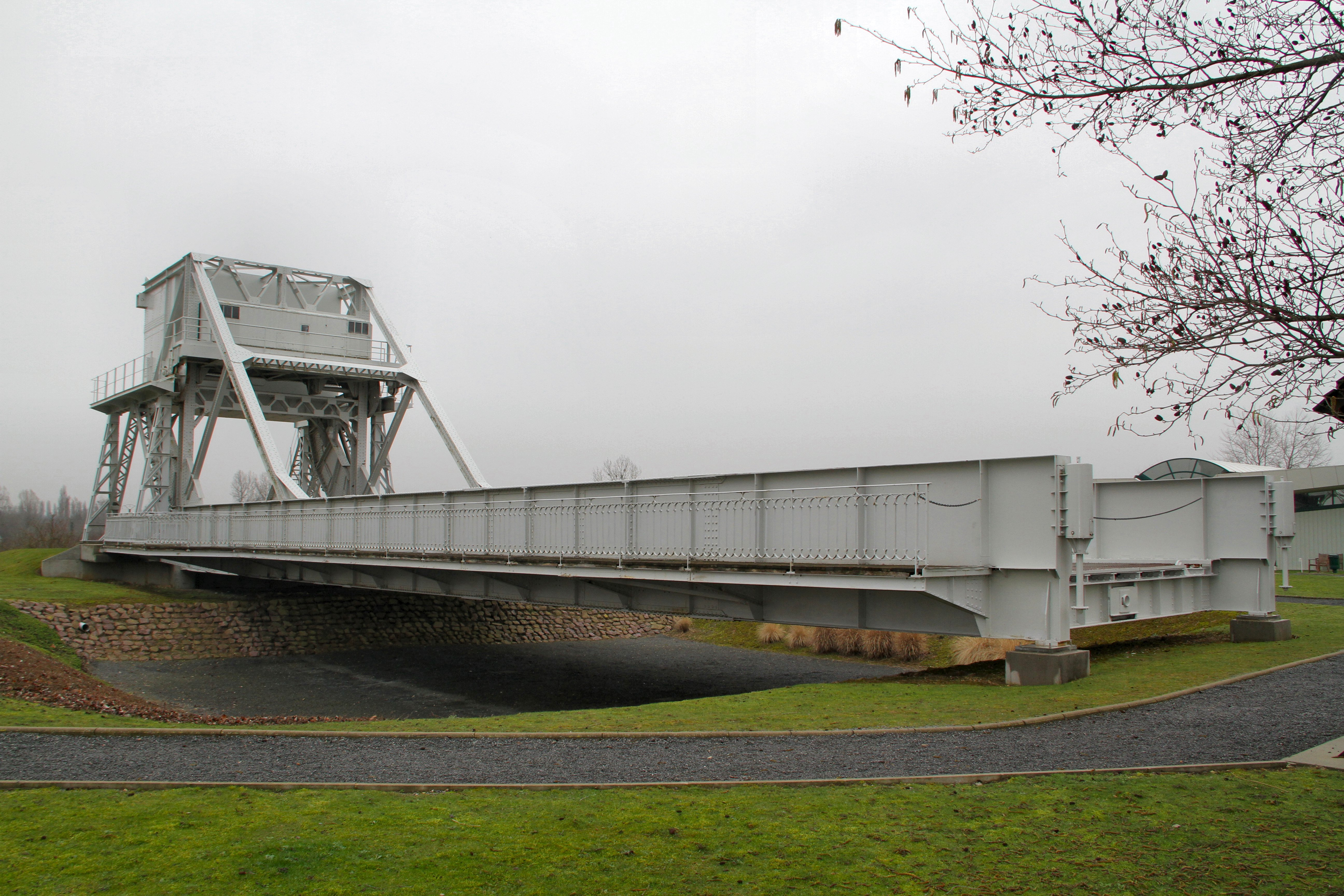 The original Pegasus Bridge kept at the Pegasus memorial museum. An enlarged replica took its place over the river. Taken at Benouville, Normandy, France, February 2011